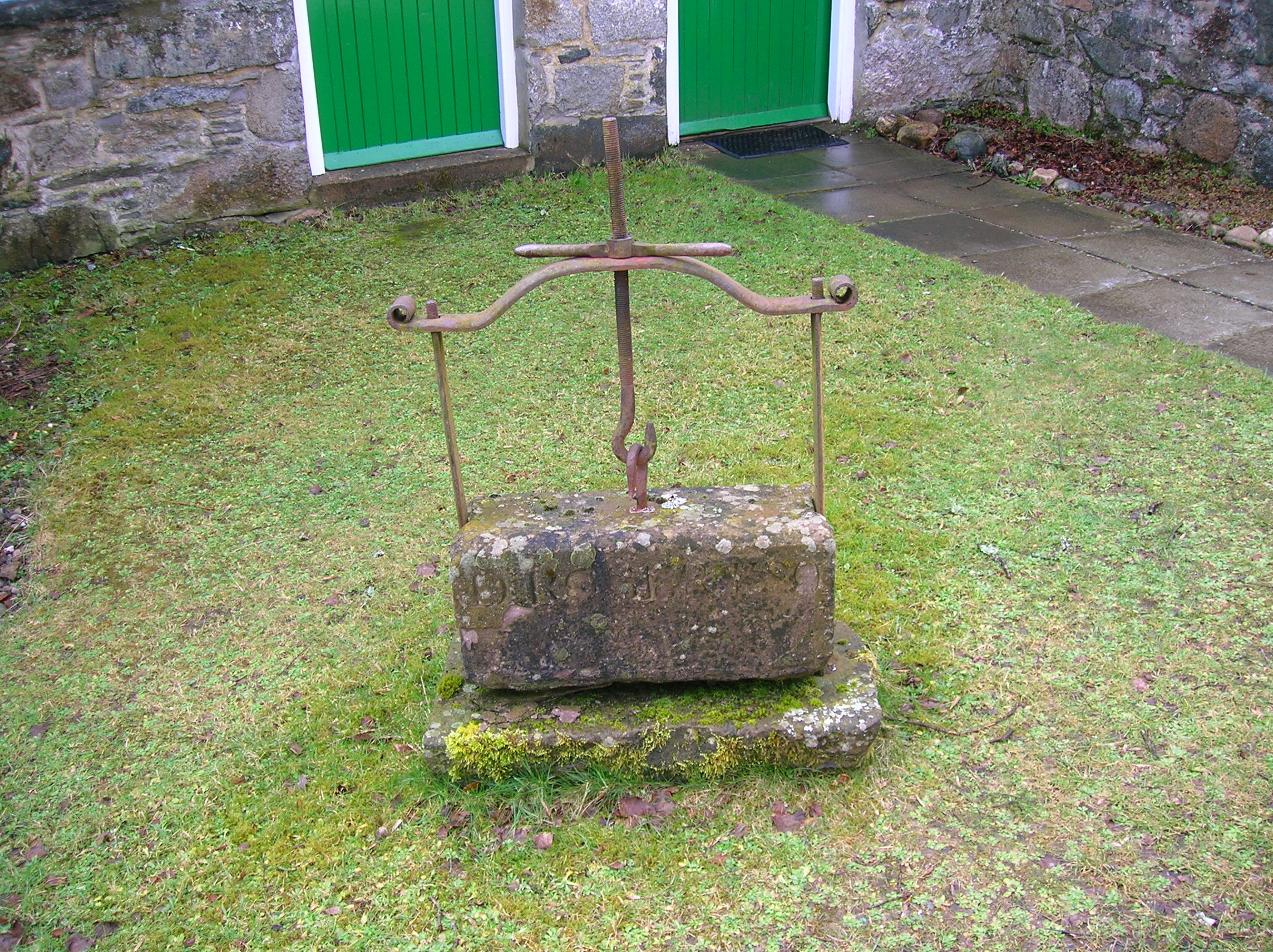 A Cheesepress at Kindrogan Field Centre, Enochdu, Scotland